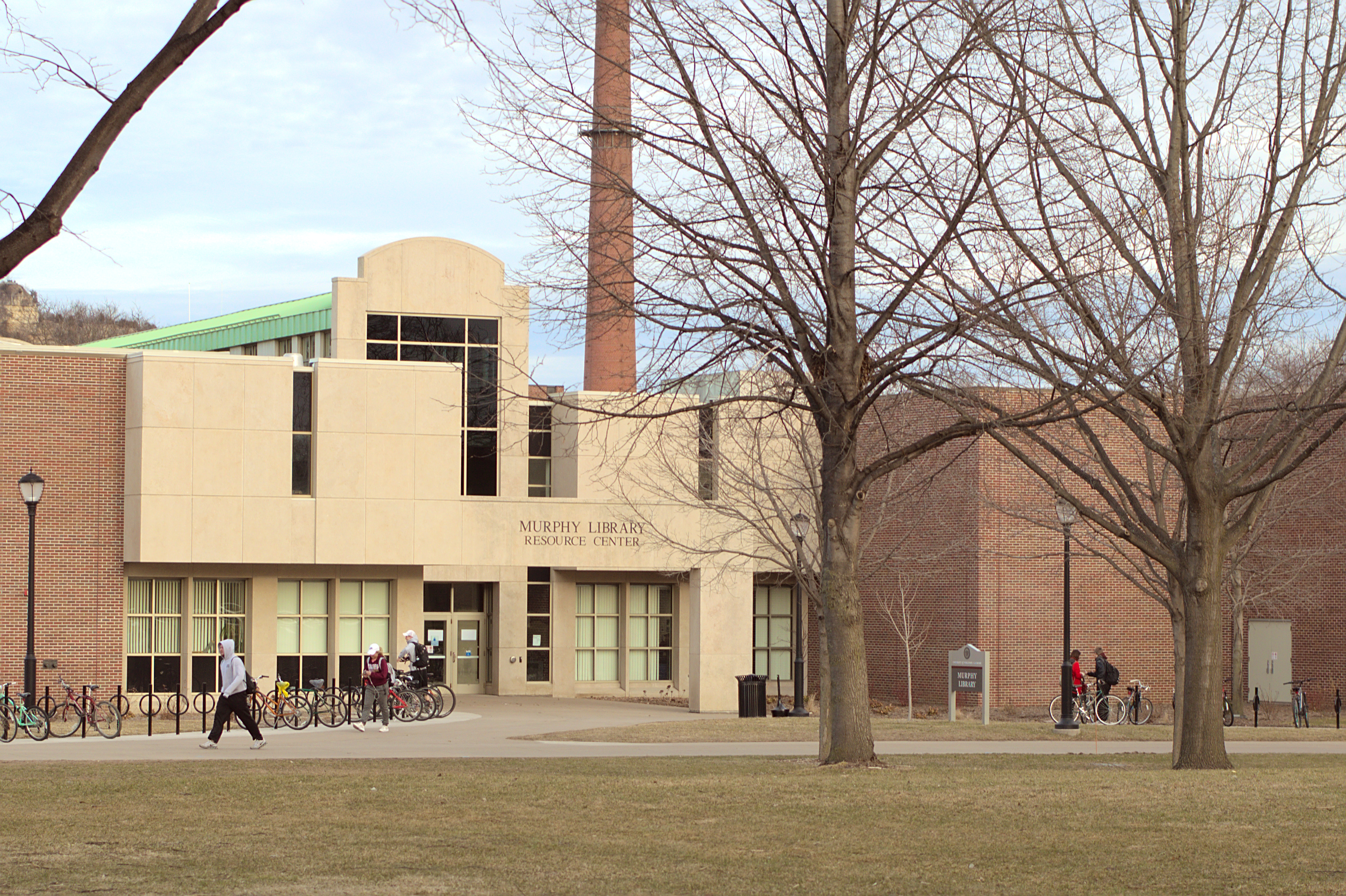 Eugene W. Murphy Library, as viewed from Drake (Hall) Field.